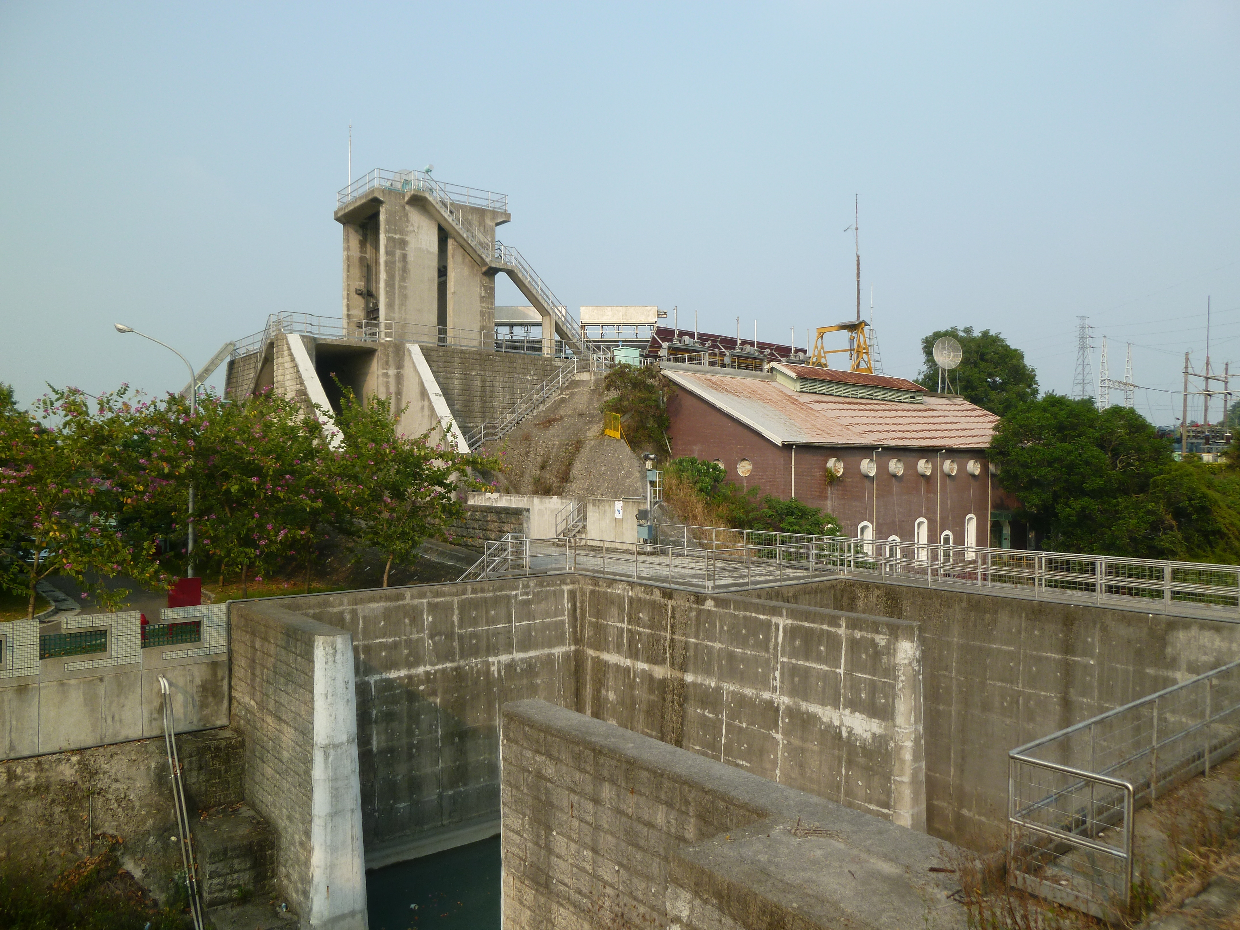 Linnei Water Power plant in Yunlin, Taiwan